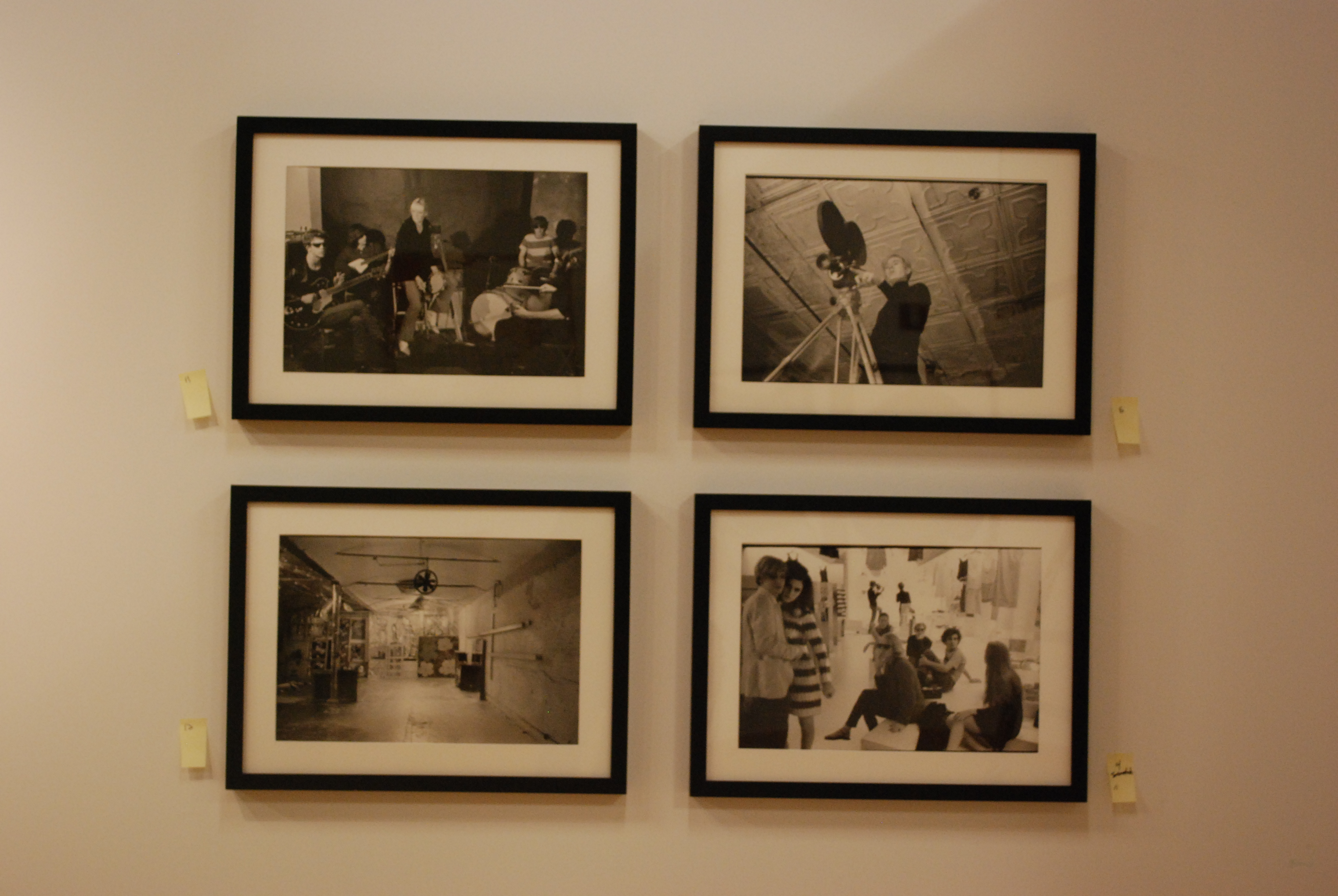 Photo taken at the Andy Warhol's Factory exhibit hosted at the Waterloo Region Children's Museum in Kitchener, ON.